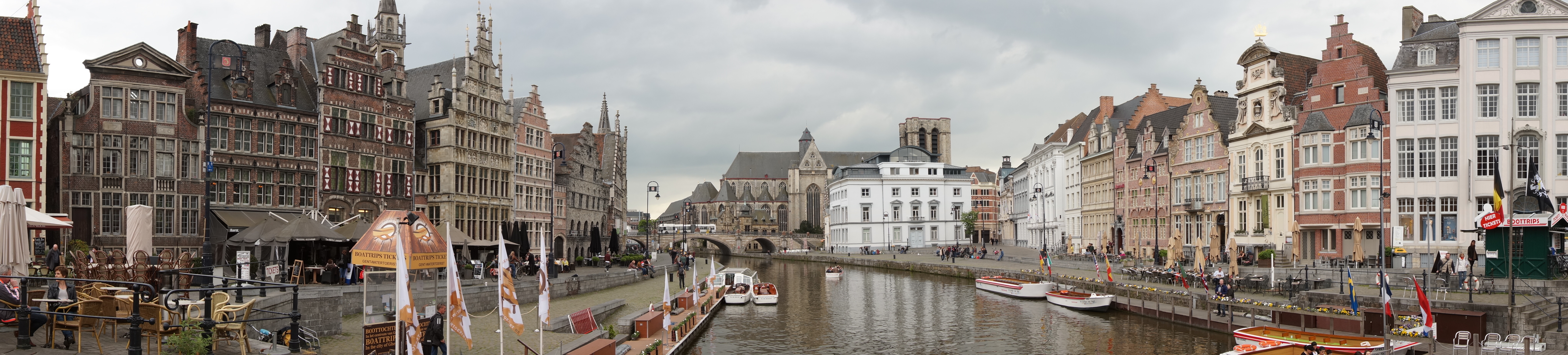 View of the Lys river in the center of Ghent, Belgium